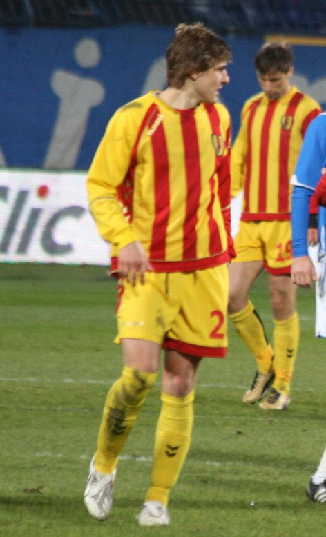 Cezary Wilk